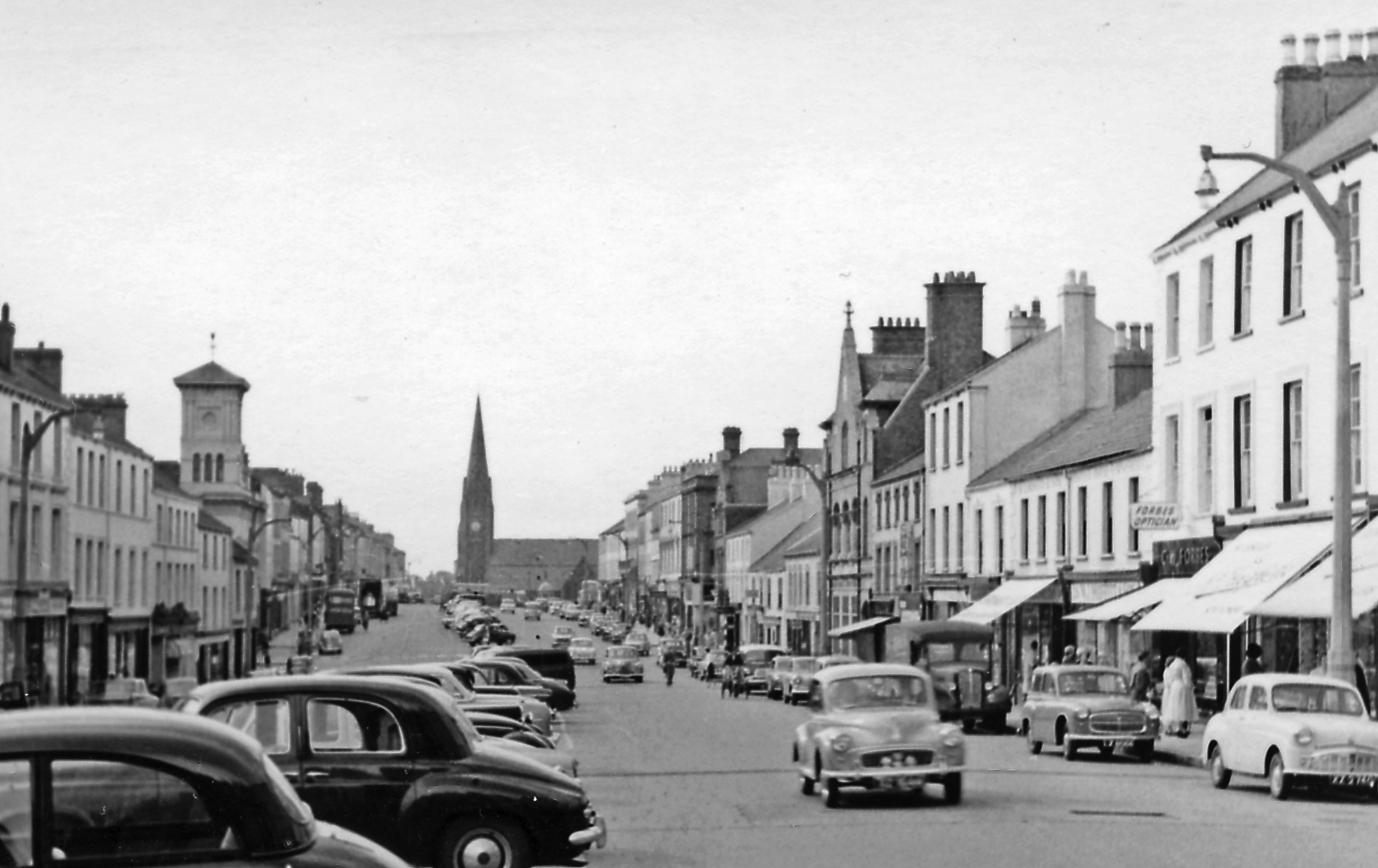 Lurgan: High Street, 1960. View northward, to St Peter's Church (now Shankill Parish Church or Christ Church (C of I)) at the end, up Market Street and Church Place. The tower on the left is the Mechanic's Institute on the corner of Union Street.